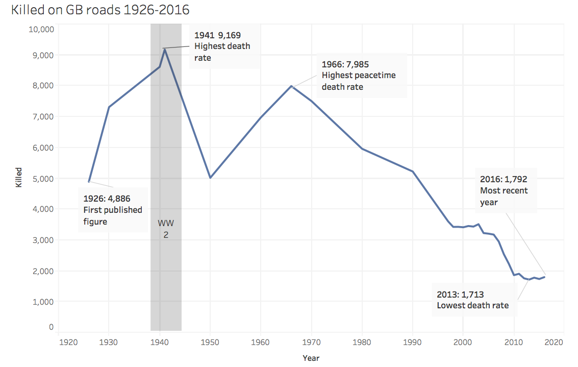 Reported road fatalities in Great Britain as a result of traffic collisions since 1926 when records began. The chart also shows some significant events relating to UK Speed limits, enforcement technology used and other events such as the opening of the The first major section of motorway, changes in regulations regarding the use of seat belts and the start of the 1997-2010 Labour administration. Data taken from Reported Road Casualties Great Britain reports 2008/9 - See table 2 and notes for table 2 in both cases.